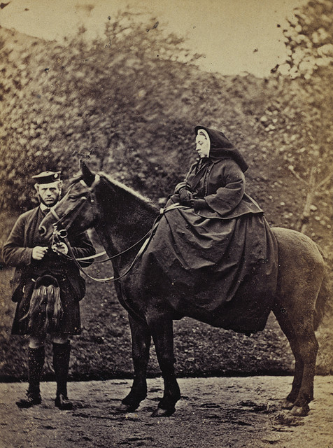 Queen Victoria on 'Fyvie' with John Brown at Balmoral For more information please select here.